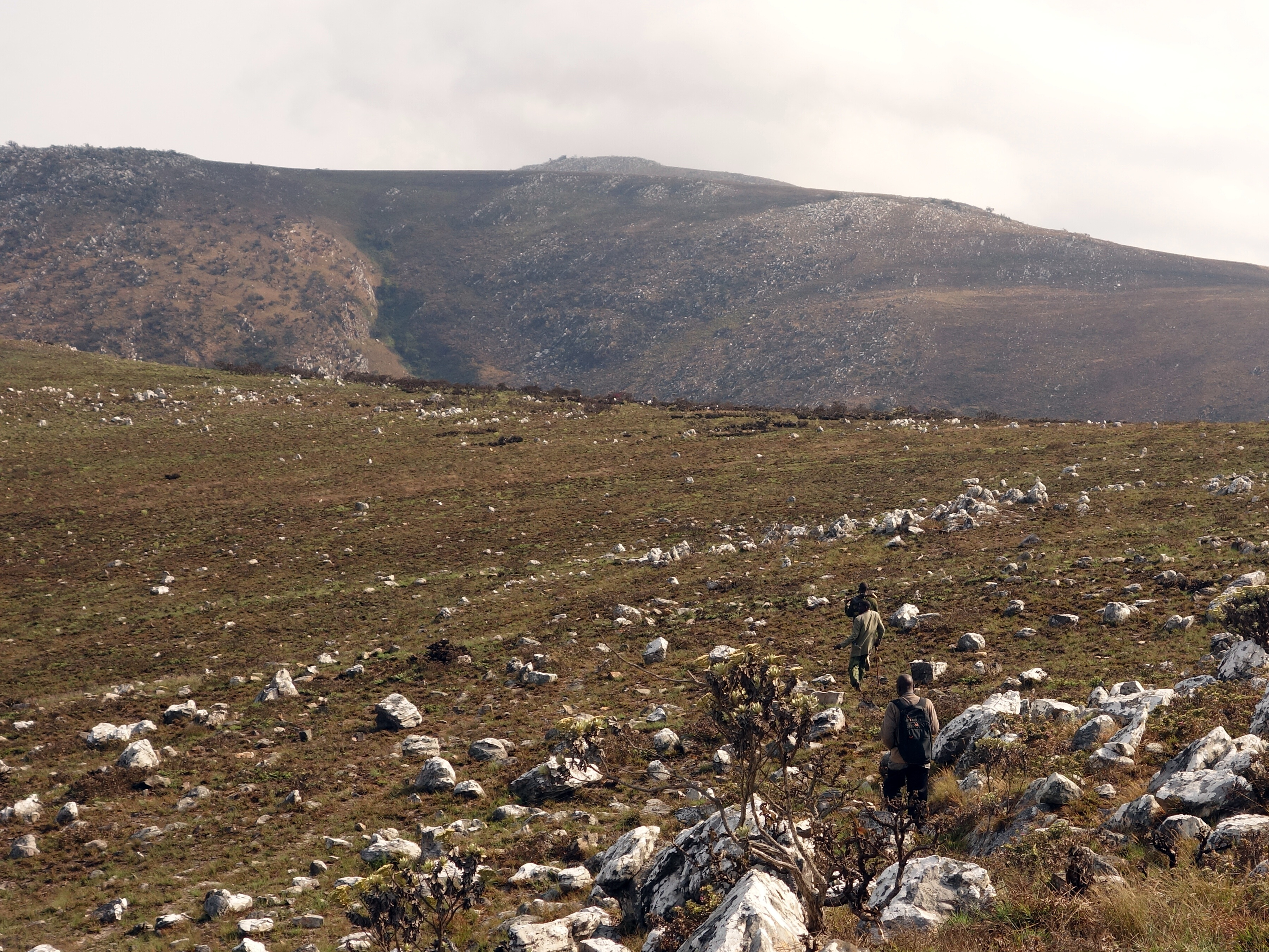 Mafinga Central (2339m) in the Mafinga Hills on the Zambia/Malawi border, and the highest point in Zambia.